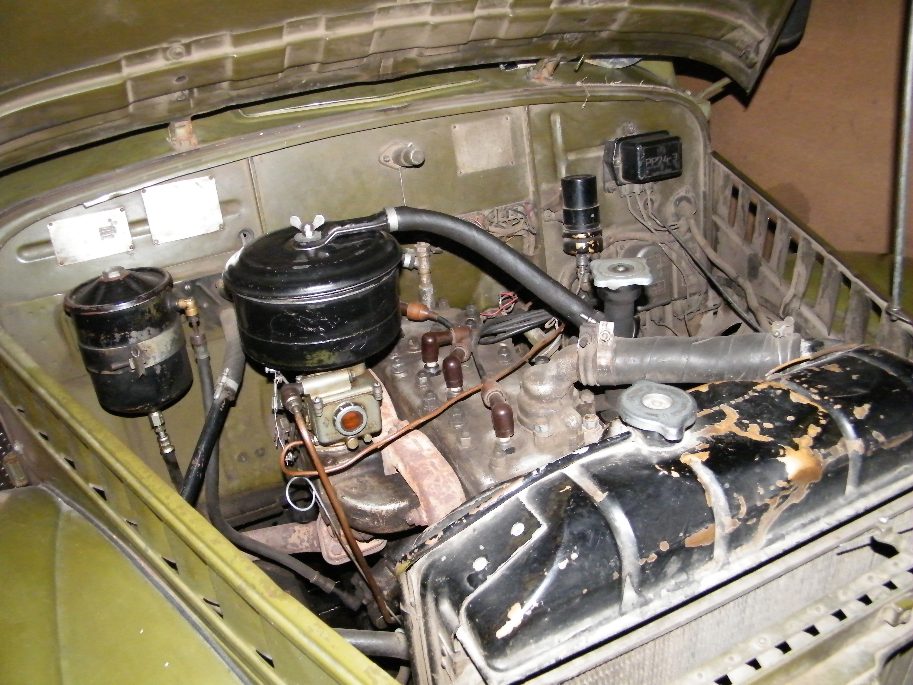 GAZ-69